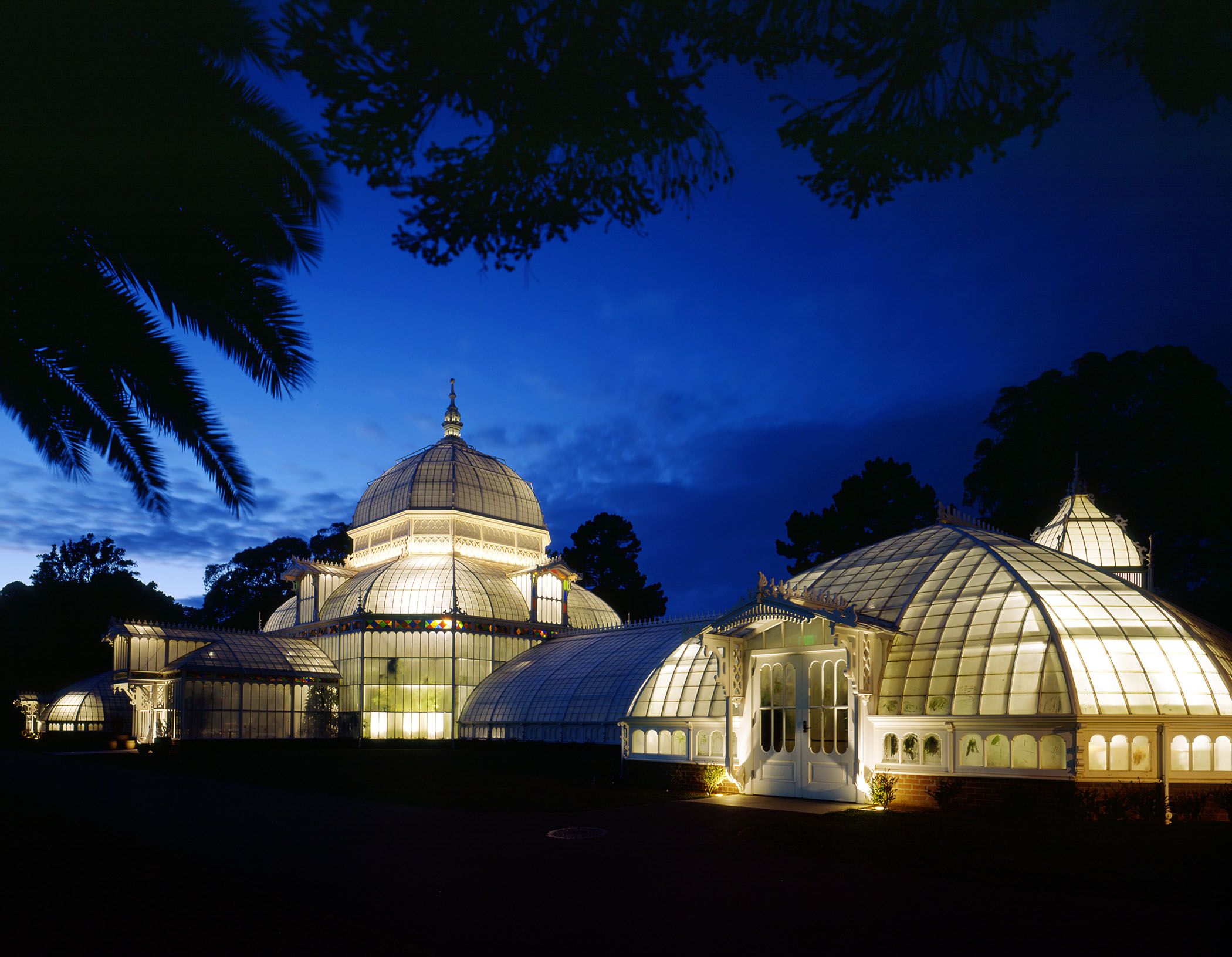 The Conservatory of Flowers at dusk